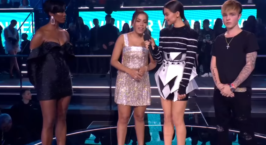 Hailee Steinfeld presents the best acts from Germany, Brazil and Africa at the 2018 MTV European Music Awards.